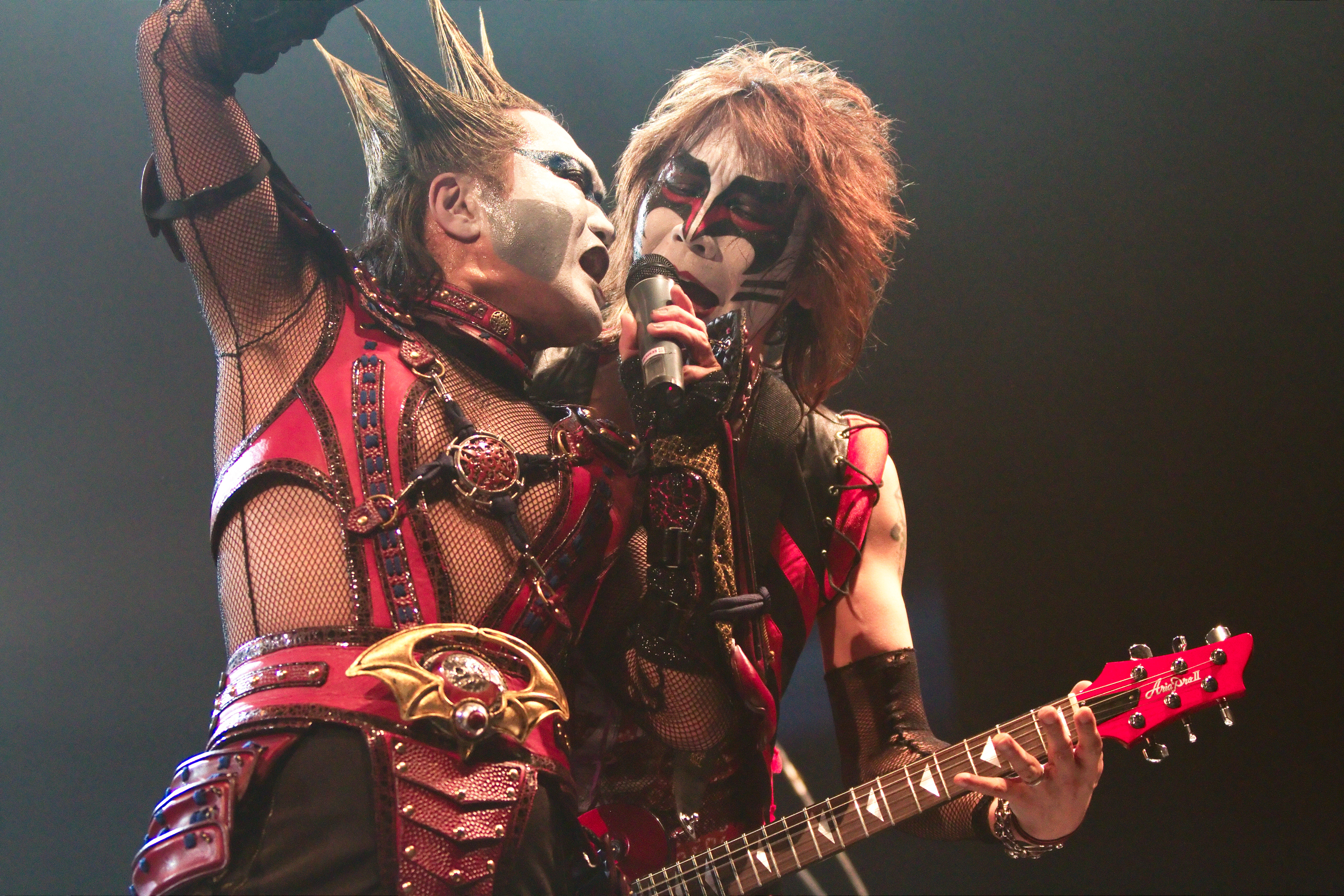 Seikima-II live at Japan Expo 2010 (Paris, France).